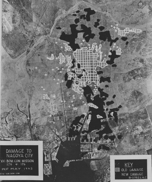 Damage to Nagoya City - XXI Bomber Command Mission 174 & 176 - 14,17 May 1945